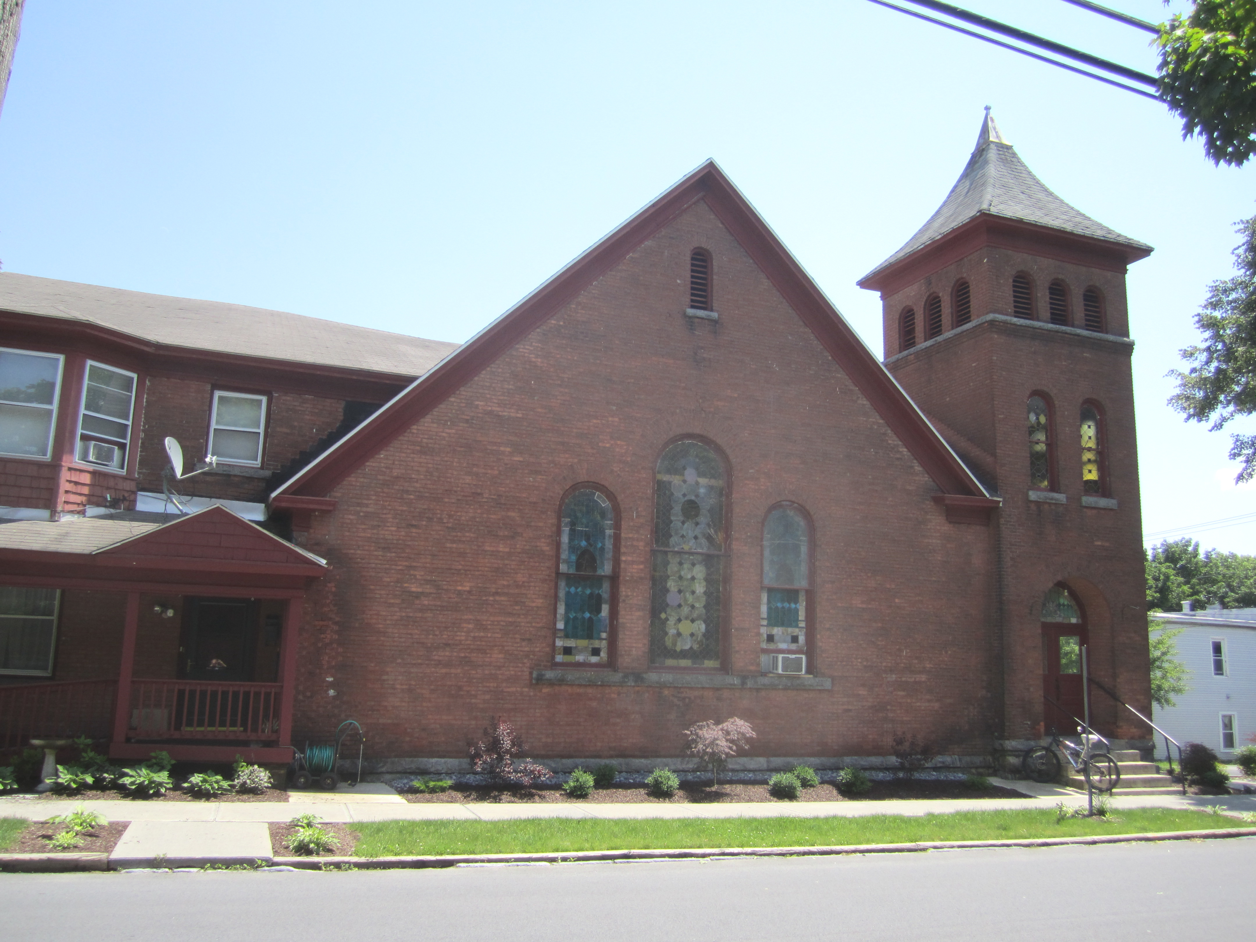 Formerly Congregational Methodist Church and bible college, corner Van Dam Street and Woodlawn Ave. Designed by R. Newton Brezee (1897) Captioned As {